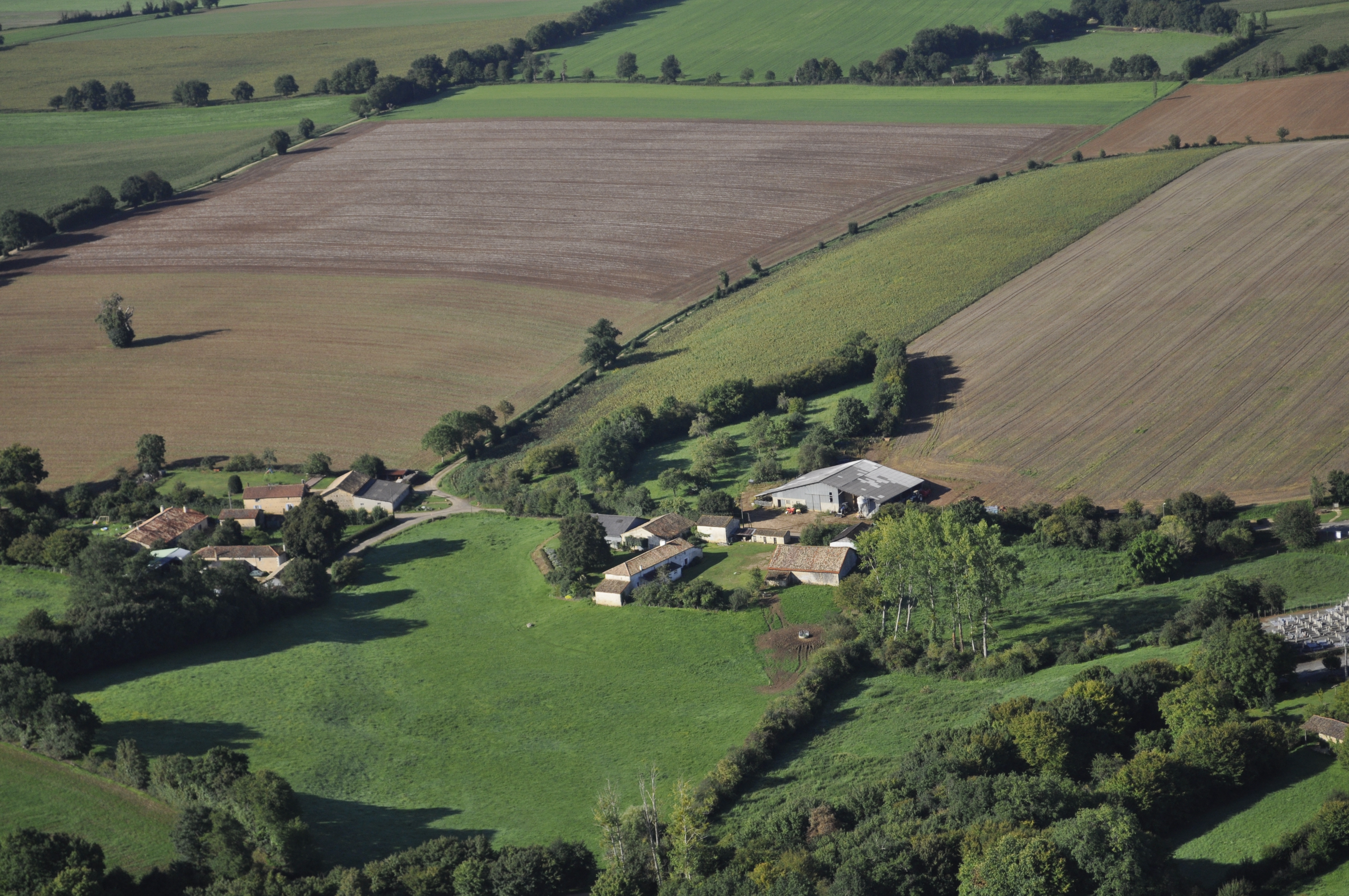 La Girardière de Saint-Coutant from the air